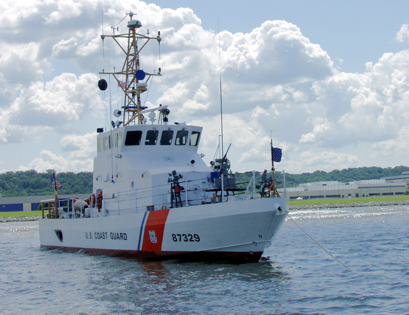 WASHINGTON, D.C. (Aug. 7, 2004)--Starboard bow view of U.S. Coast Guard Cutter Cochito (WPB 87329), homeported in Little Creek, VA, in Washington, DC on the Potomac River, on August 7, 2004. Coast Guard and Coast Guard Auxiliary small boats from Washington, DC, Northern Virginia and Maryland, teamed with Cochito and its small boat, performing Marine Safety and Security patrols to help secure the area, during the heighten state of alert (Code Orange) in that city. USCG photo by Joseph P. Cirone